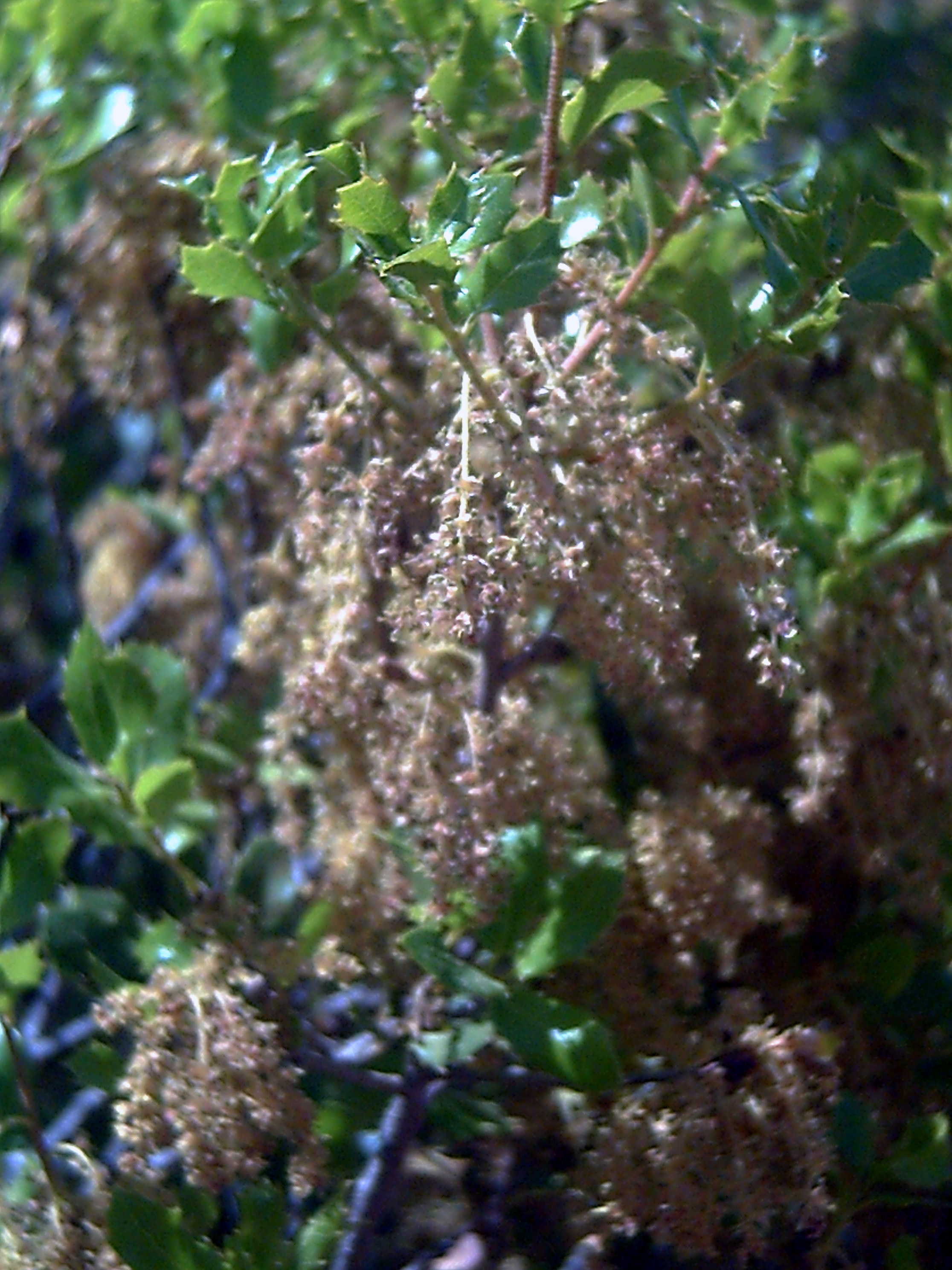 Quercus coccifera inflorescences in Dehesa Boyal de Puertollano, Spain